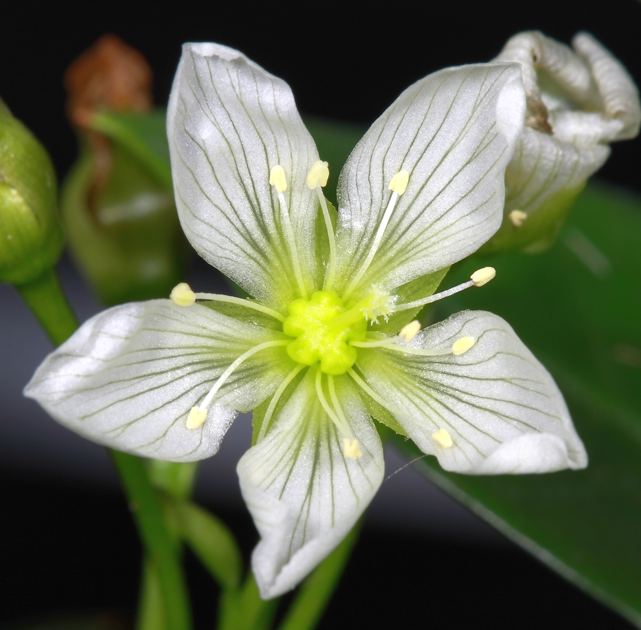 Venus Flytrap flower - 20mm in diameter.